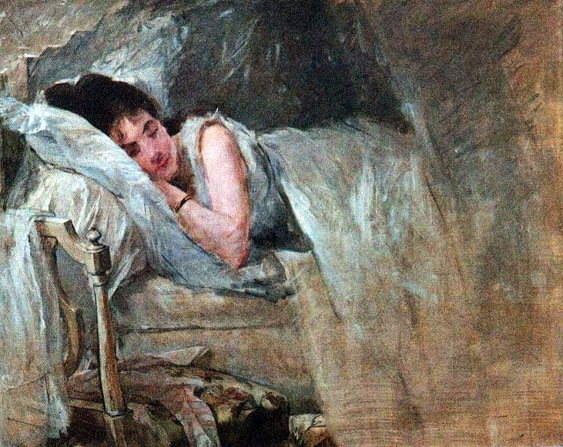 Le sommeil (81x100 cm, private collection